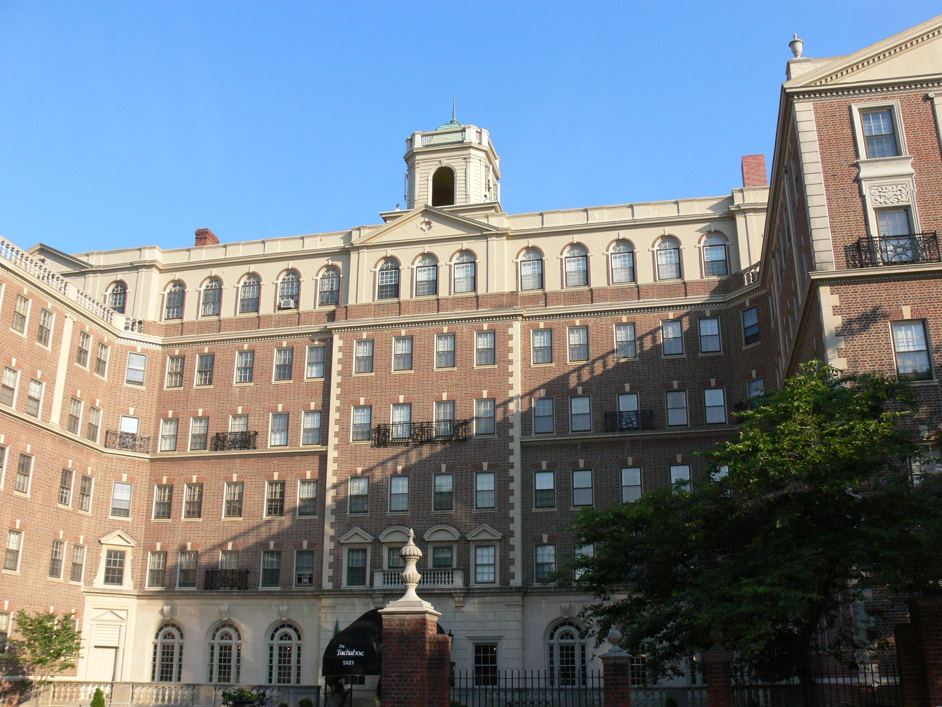 The Tuckahoe, a former hotel in Richmond, Virginia on the National Register of Historic Places.